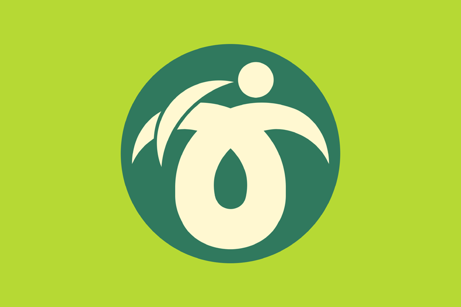 Flag of Osaki, Miyagi